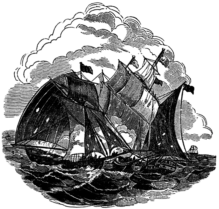 Captain (Henry) Every/Avery engaging the Great Mogul's Ship depicted in The Pirates Own Book.